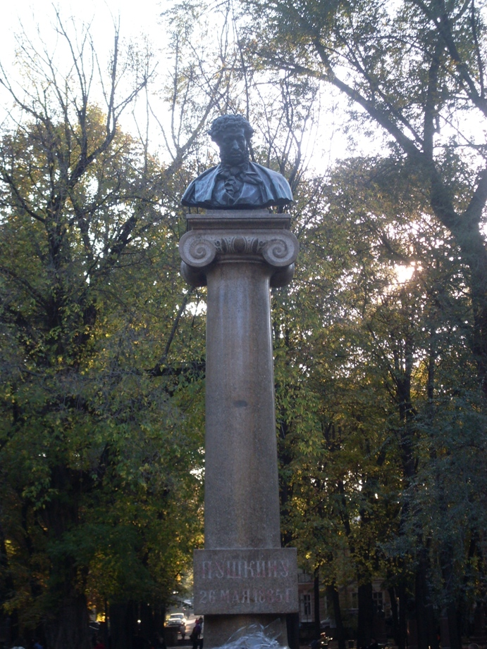 Bust of Aleksandr Pushkin in the Alley of Classics of Chişinău.